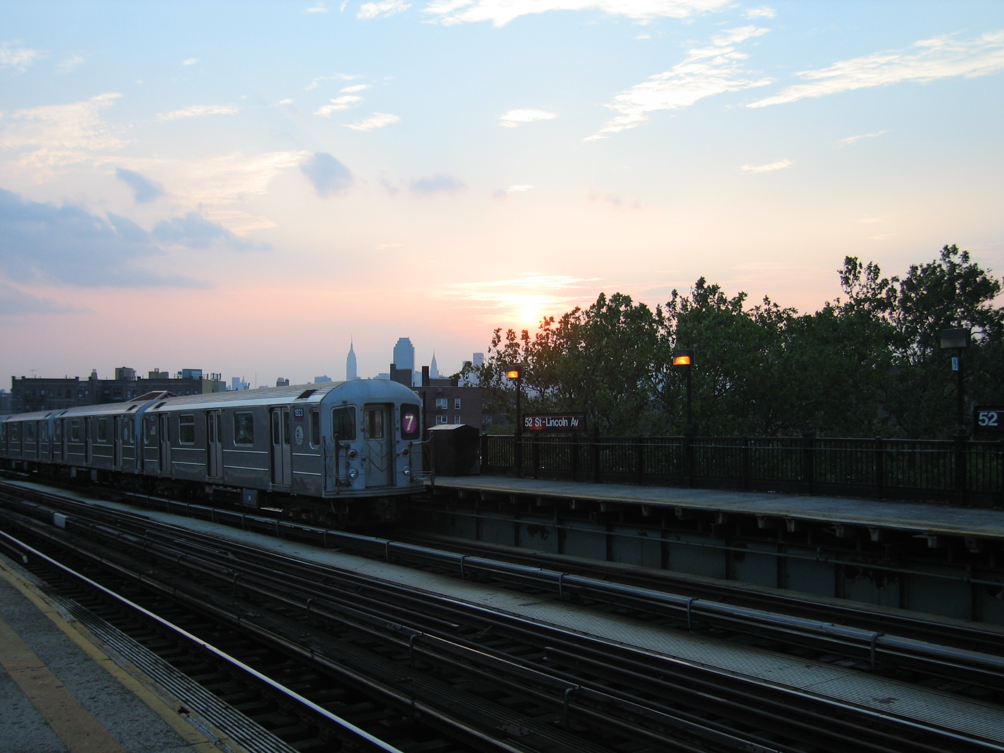 New York Subway Station 52nd Street-Lincoln Avenue